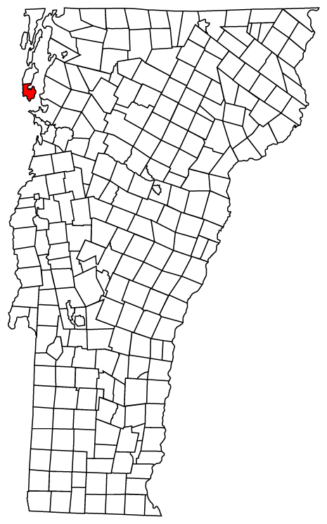 Map of Vermont towns with South Hero highlighted